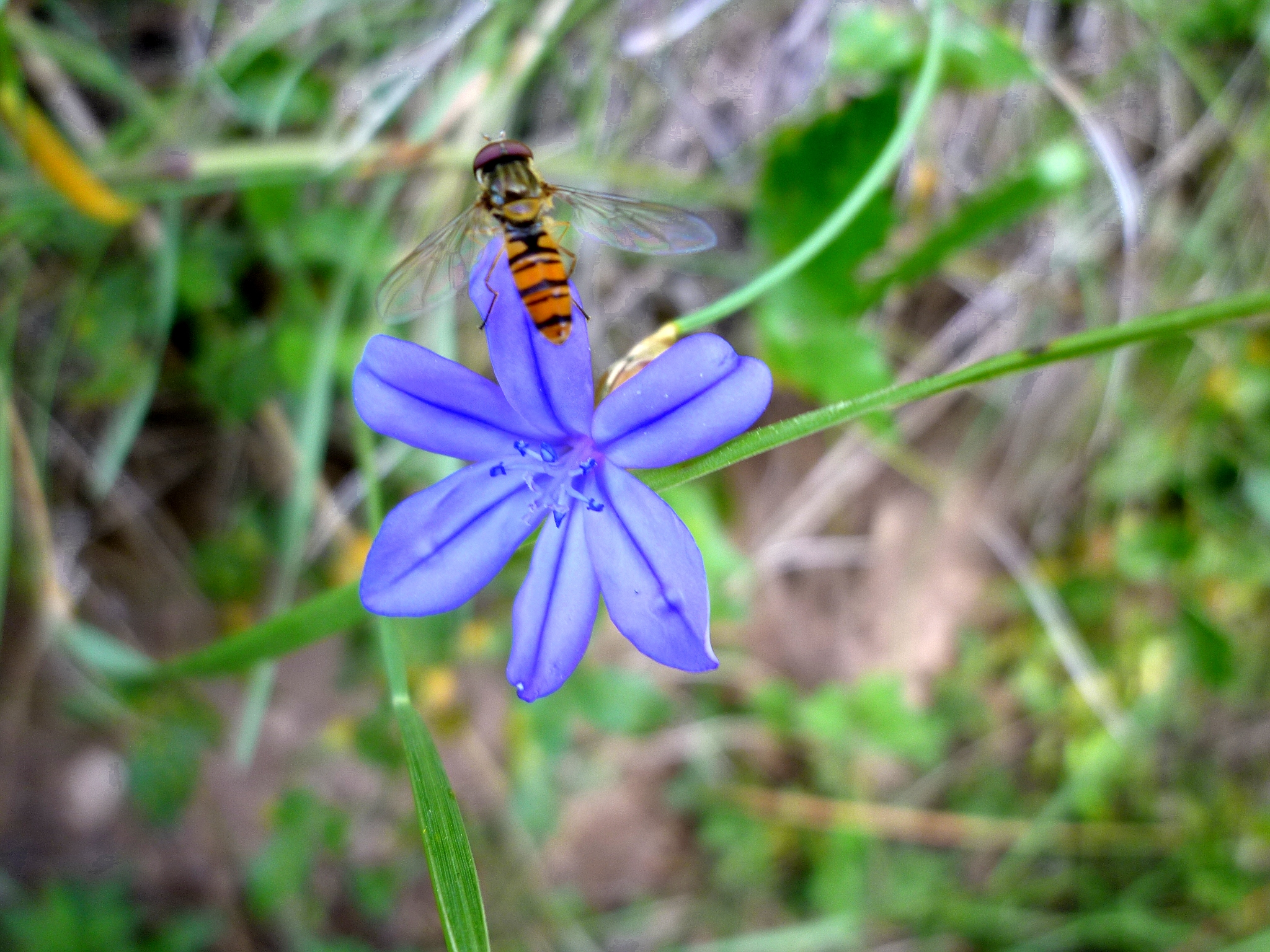 Aphyllanthes monspeliensis. In Torà (Segarra - Catalunya). To 590 m. altitude